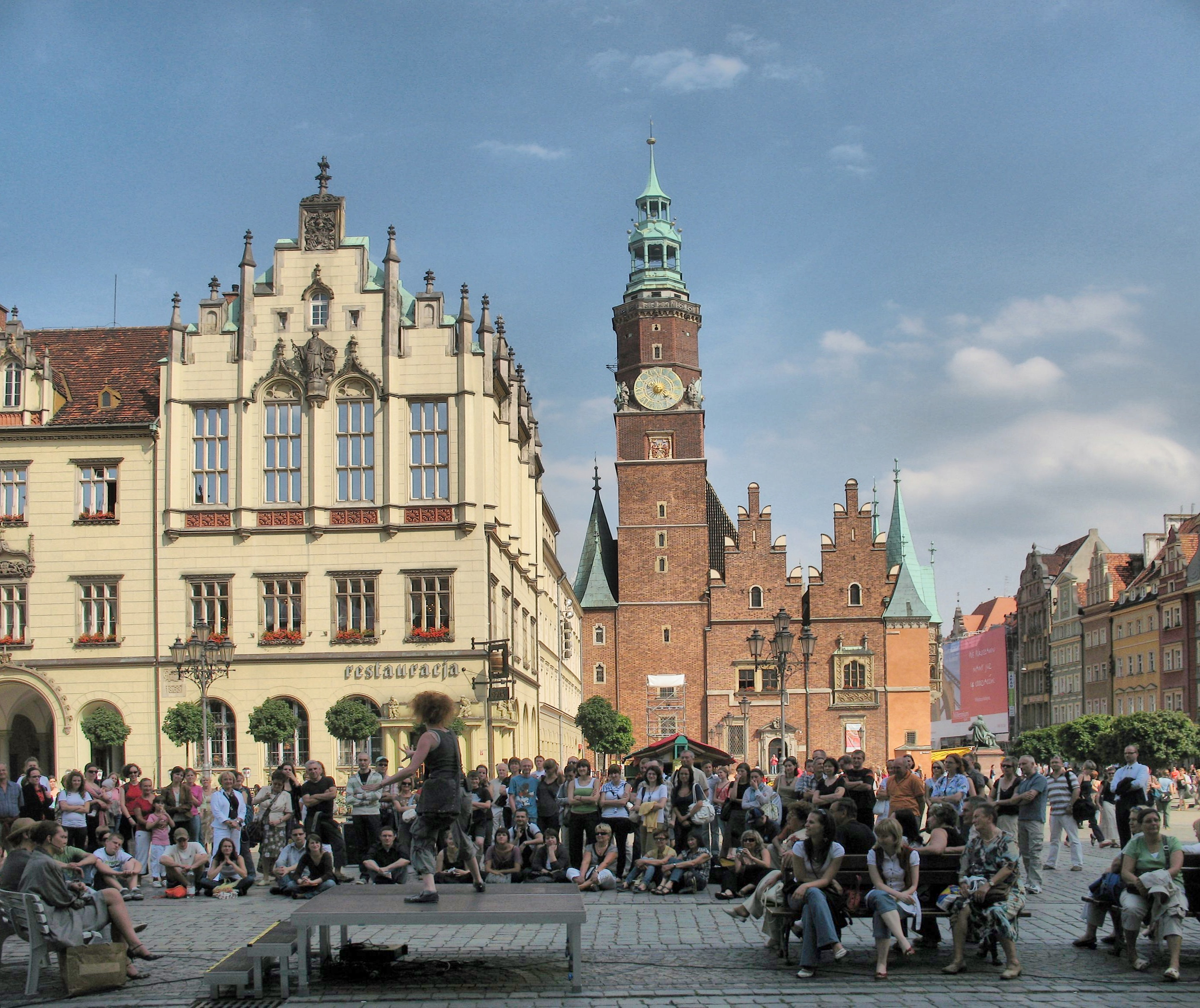 The marketplace in Wrocław